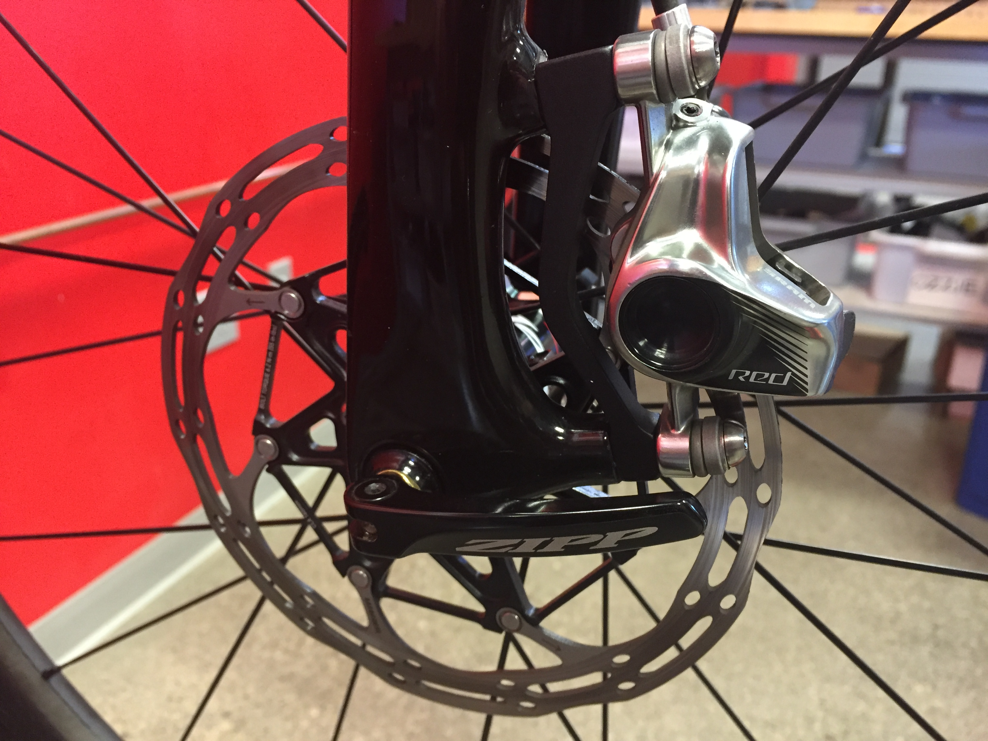 SRAM RED eTap HRD caliper and rotor installed on bike.